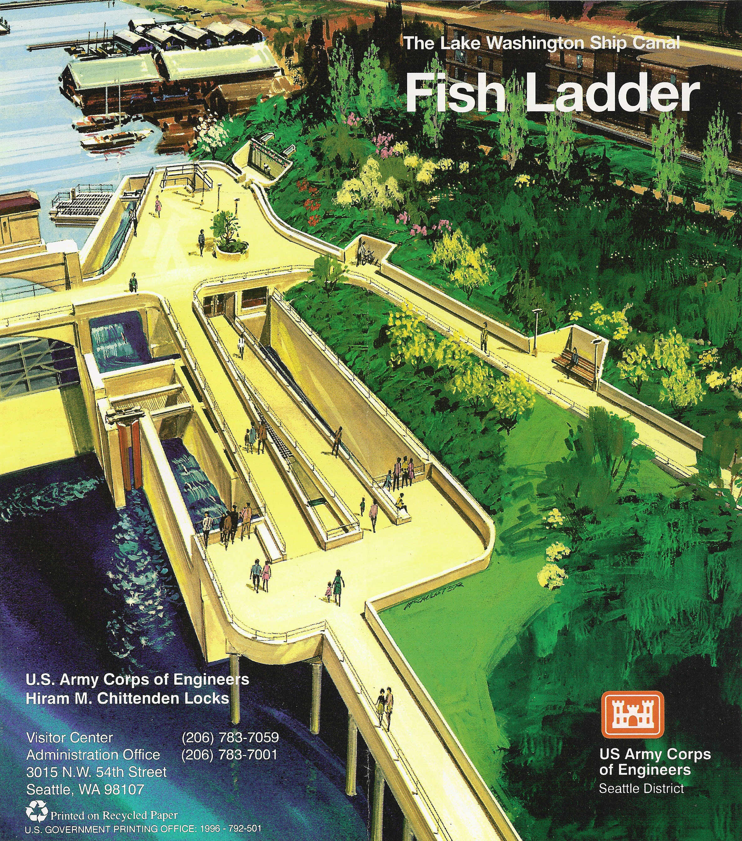 Cover of U.S. Government Printing Office Pamphlet 1996-792-501: Lake Washington Ship Canal Fish Ladder, scanned at 300 dpi. This shows a reasonably accurate view, angled from above, of the fish ladder, which is located across the channel from the Hiram Chittenden Locks, Seattle, Washington. The image also shows the logo of the US Army Corps of Engineers and there is text with some addresses, phone numbers, etc.